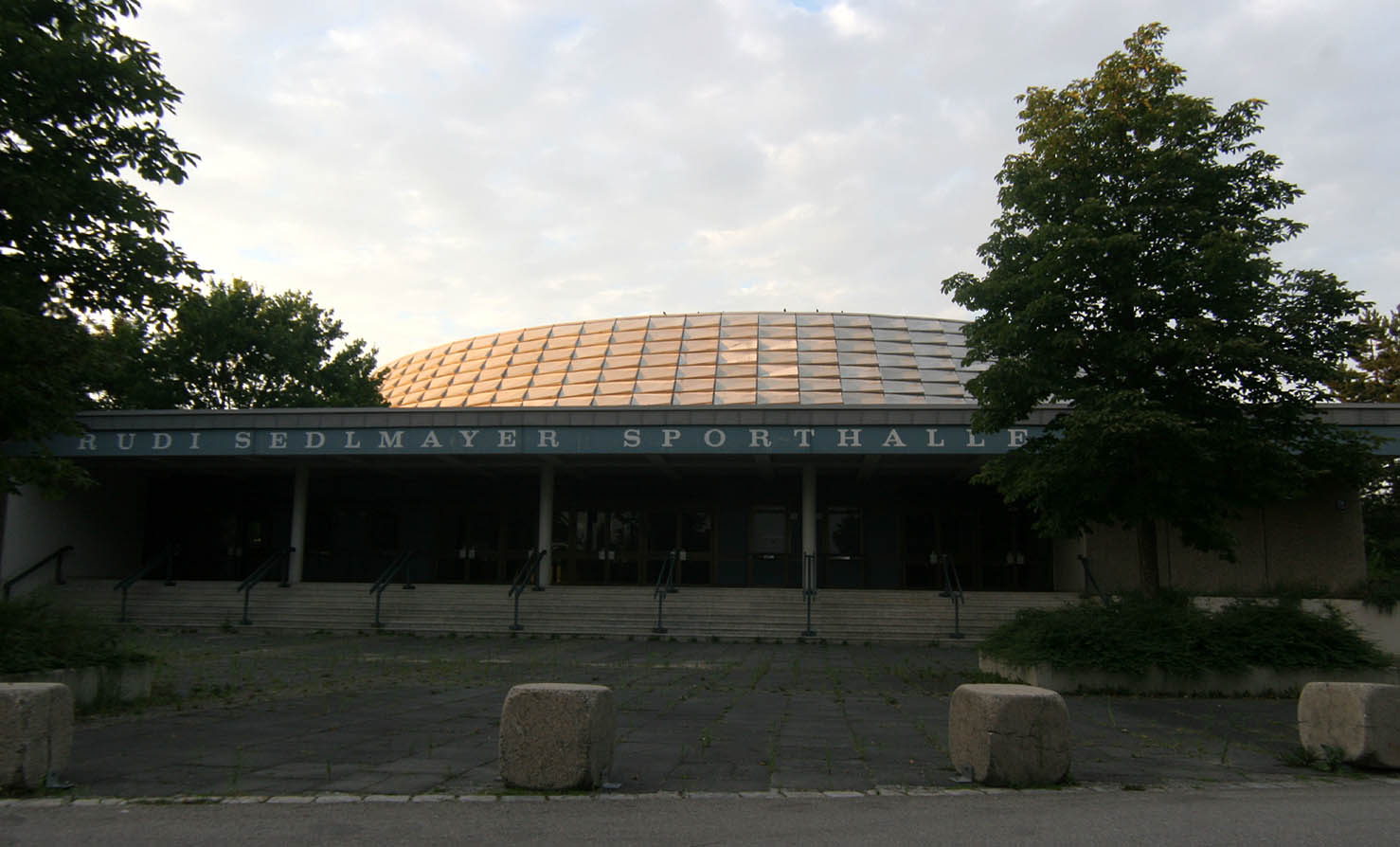 Rudi-Sedlmayer Hall, Munich